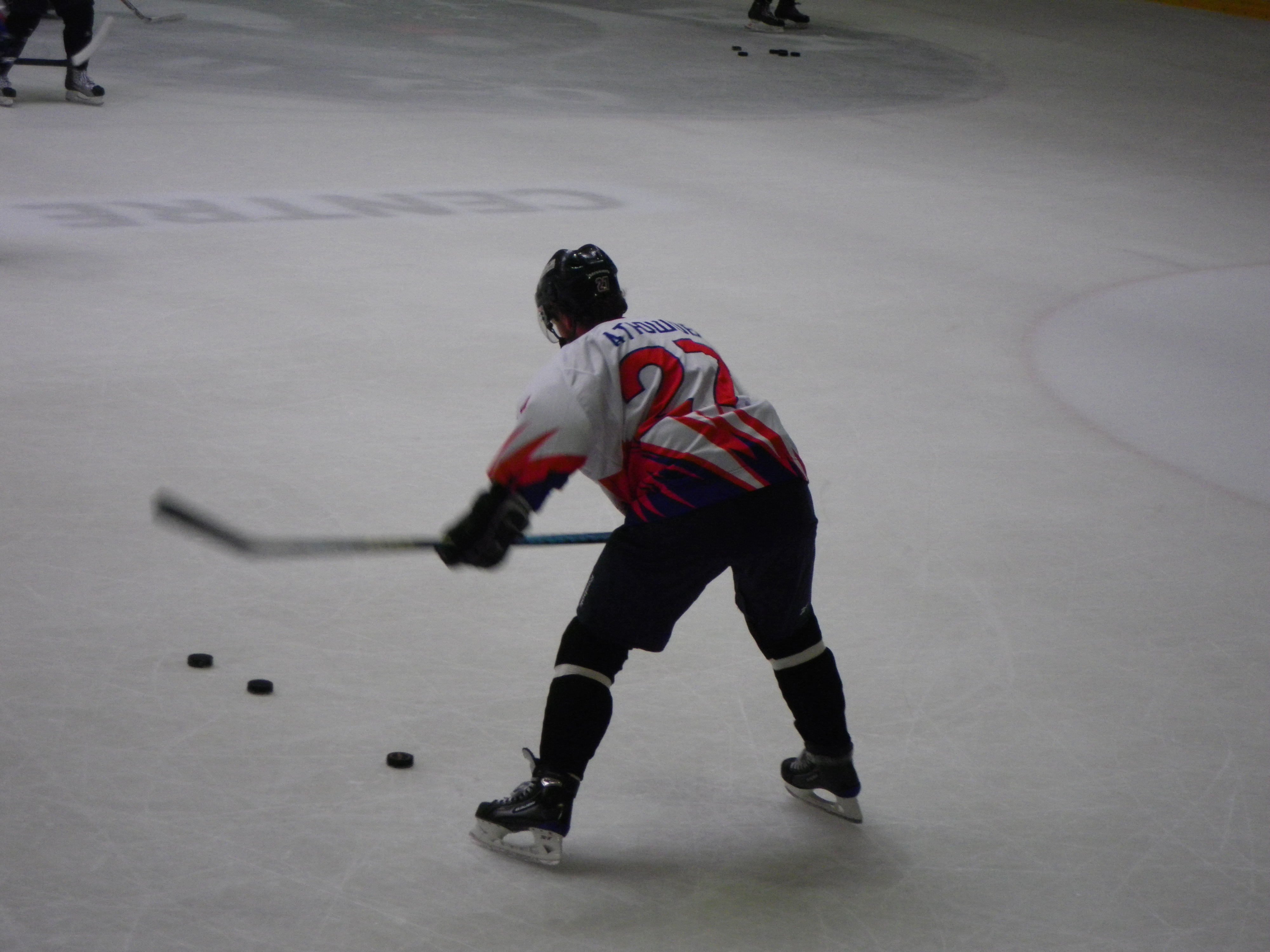 Vitaly Atyushov, russian ice hockey player with Metallurg Magnitogorsk